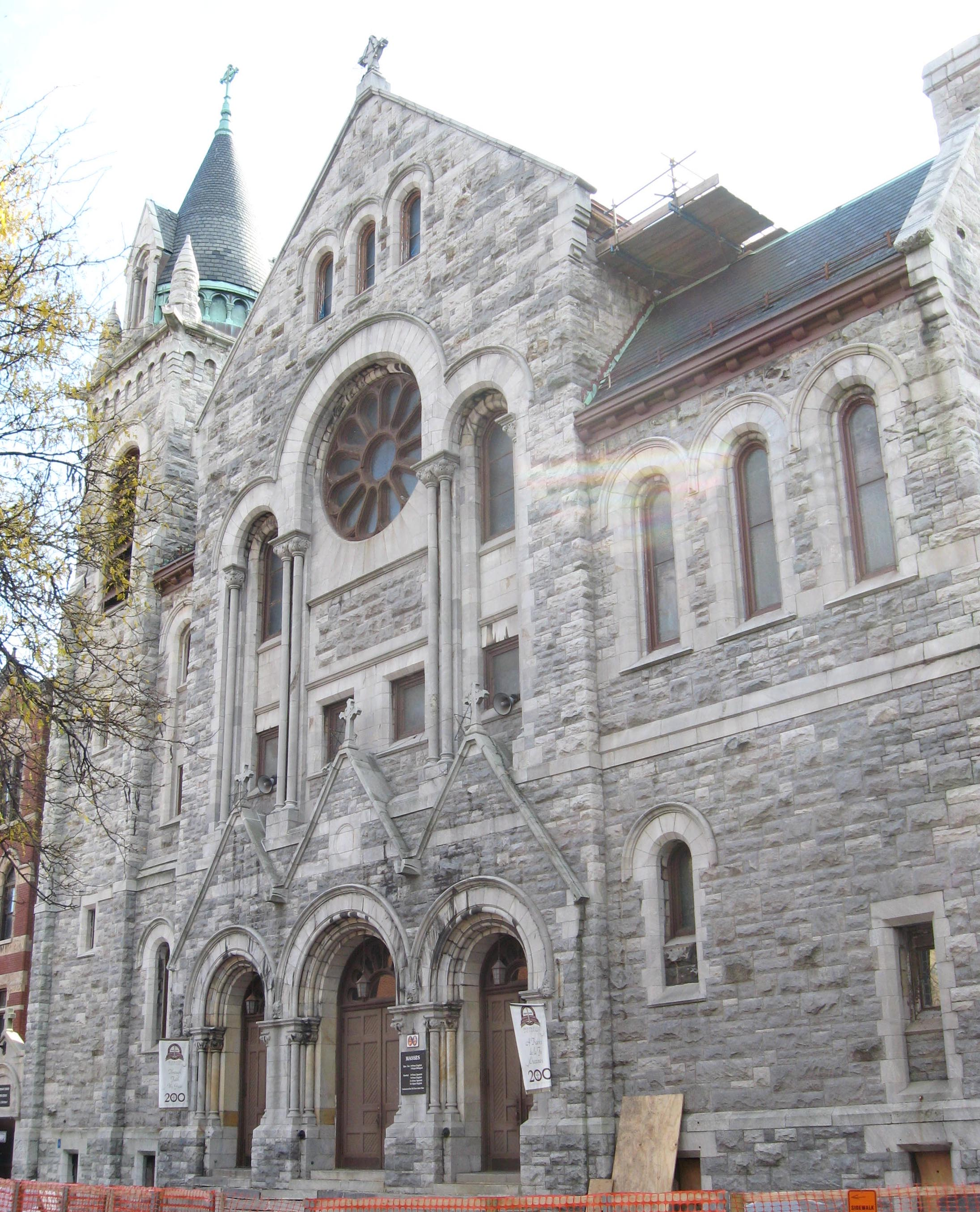 Looking southeast across 119th Street at Holy Rosary Parish-East Harlem on a sunny afternoon